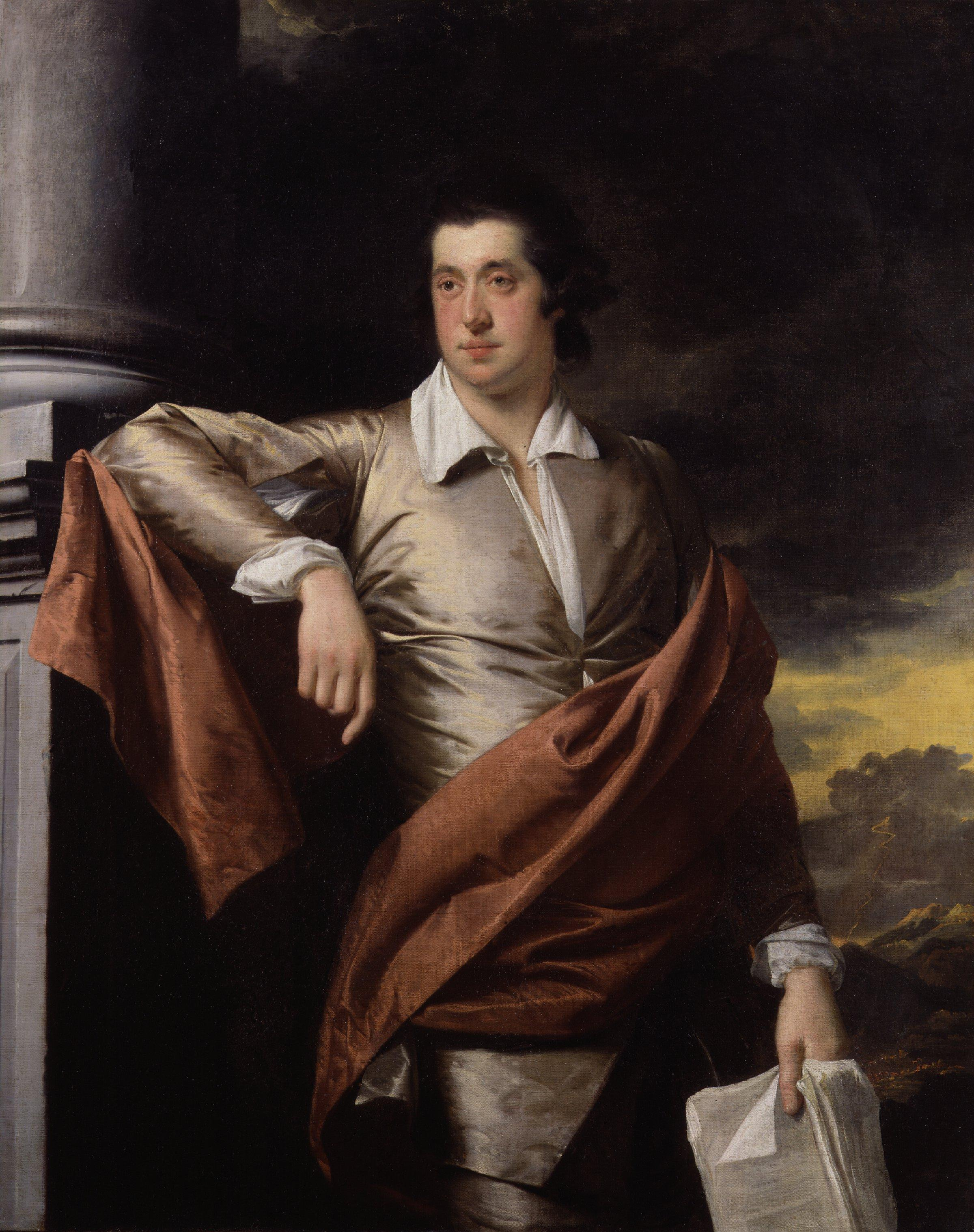 Thomas Day, by Joseph Wright (died 1797). All images in this batch have been confirmed as author died before 1939 according to the official death date listed by the NPG.